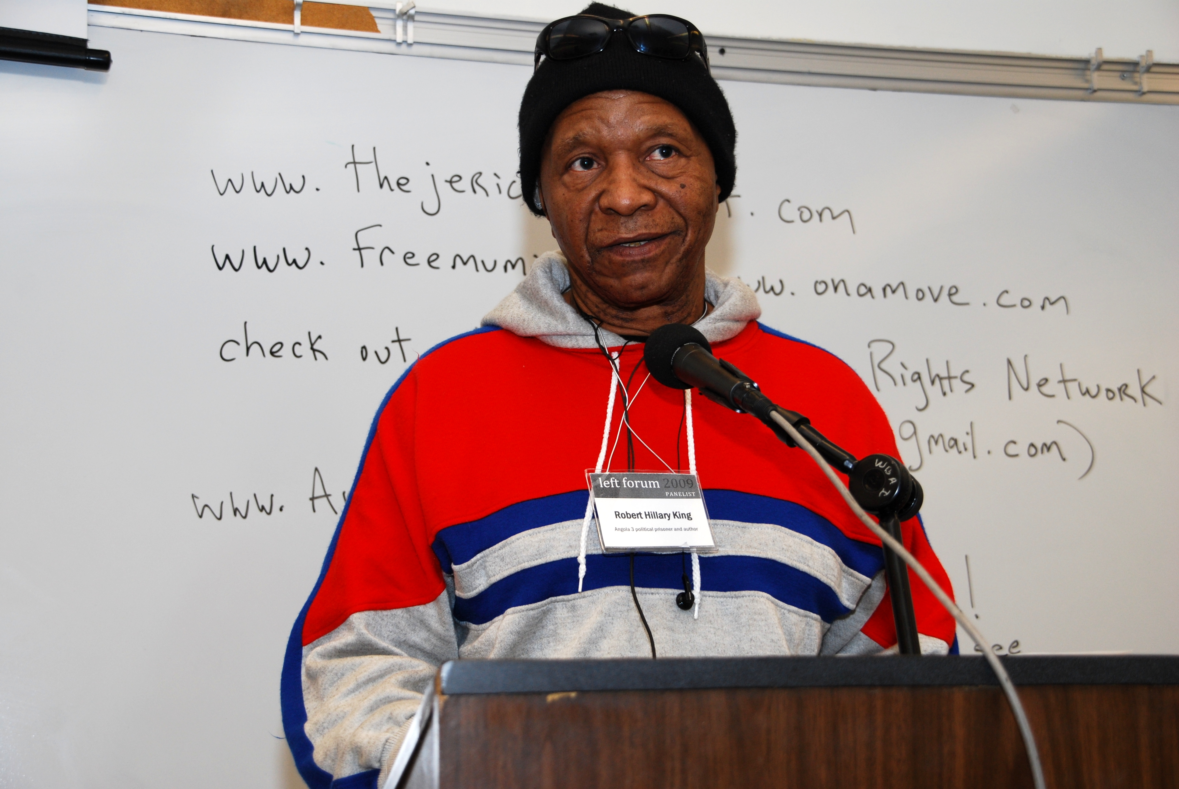 Robert Hillary King speaking at the Left Forum.